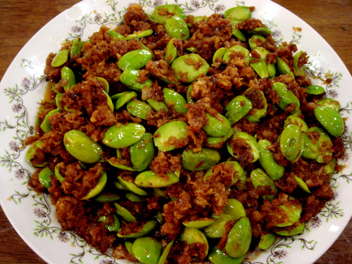 A Malaysian dish made with petai (Parkia speciosa) beans. Taken in Sarawak, East Malaysia, with a Sony DSC-T10 digital camera. Dish consists of dried shrimp, chili peppers, red onions, belacan (shrimp paste), soybean sauce, minced meat, and petai beans.